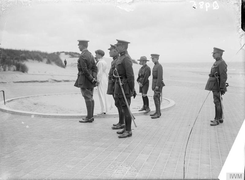 The Official Visits To the Western Front, 1914-1918 Albert I (wearing the uniform of a colonel of the 5th Dragoon Guards), King of Belgians, and Elisabeth, Queen of Belgians, with their two sons, watching the presentation of decorations to about 30 Belgian officers by King George V at La Panne, 13th August 1916.